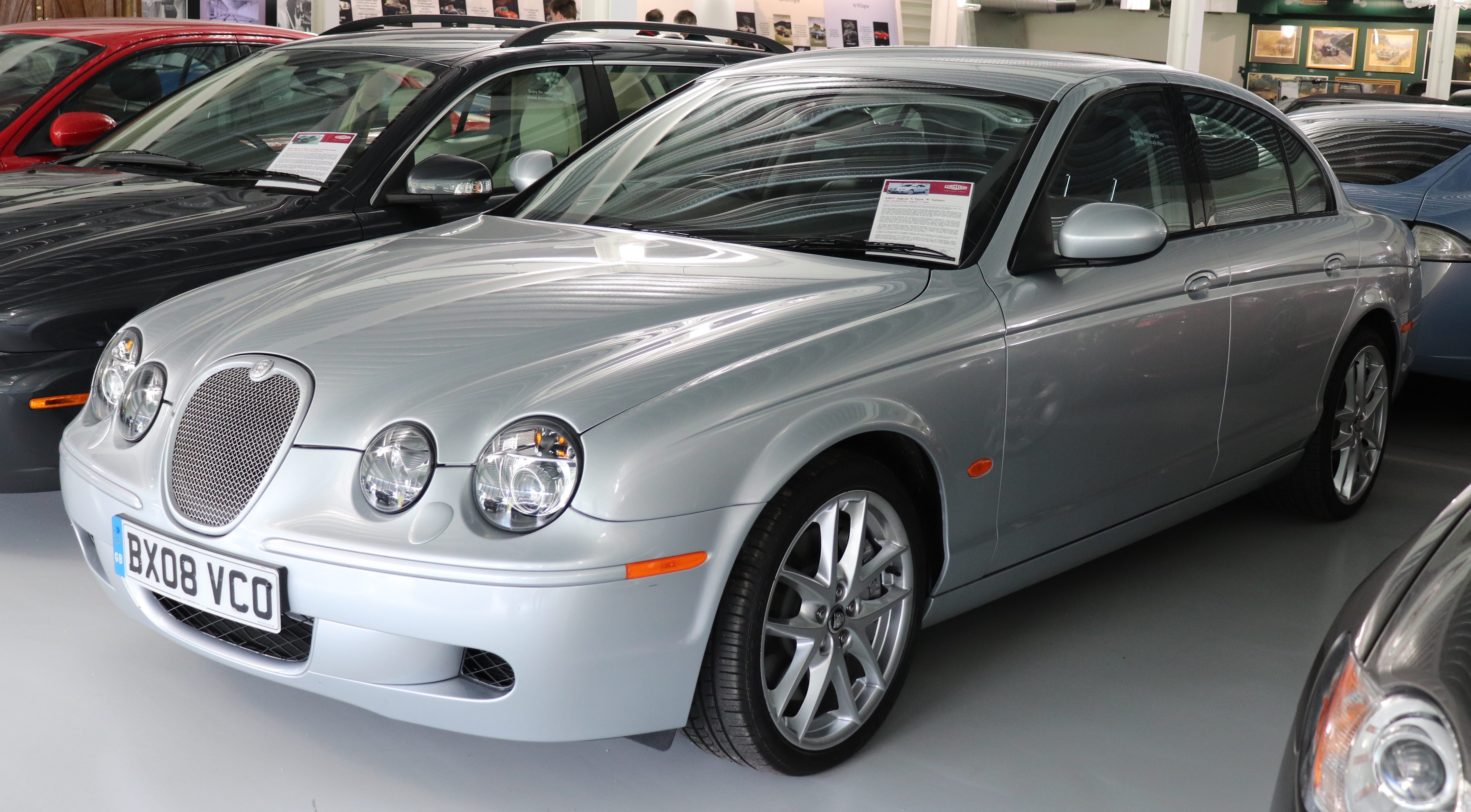 2007 Jaguar S-Type R 4.2 Taken at the British Motor Museum, Gaydon